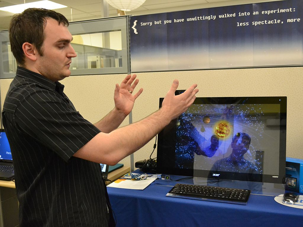 Yuriy Kozachuk, a marketing engineer in the Intel Perceptual Computing Group, uses a 3-D camera mounted atop an all-in-one computer screen to demonstrate hand gesture control. For more: Making Computers More Human Perceptual computing to bring natural human responses to machine interactions. In an attempt to unshackle people from the archaic keyboard and mouse, technology companies are bringing human-like senses to computing devices so they can understand speech, gestures and touch. Momentum toward new computing interactions has been gathering for a decade. People began using motion sensors to interact with gaming consuls such as Microsoft's Xbox and the Nintendo Wii. Touchscreen interfaces to control smartphones, tablets and Ultrabooks became commonplace. Voice recognition technologies such as Siri allowed people to tell their devices what to do. Yet despite these advances, the keyboard and mouse have remained ubiquitous. “Control, Alt, Delete . . . that’s not natural," said Mooly Eden, vice president of Intel Israel. "We should be able to communicate with a computer the same way we communicate with one another."